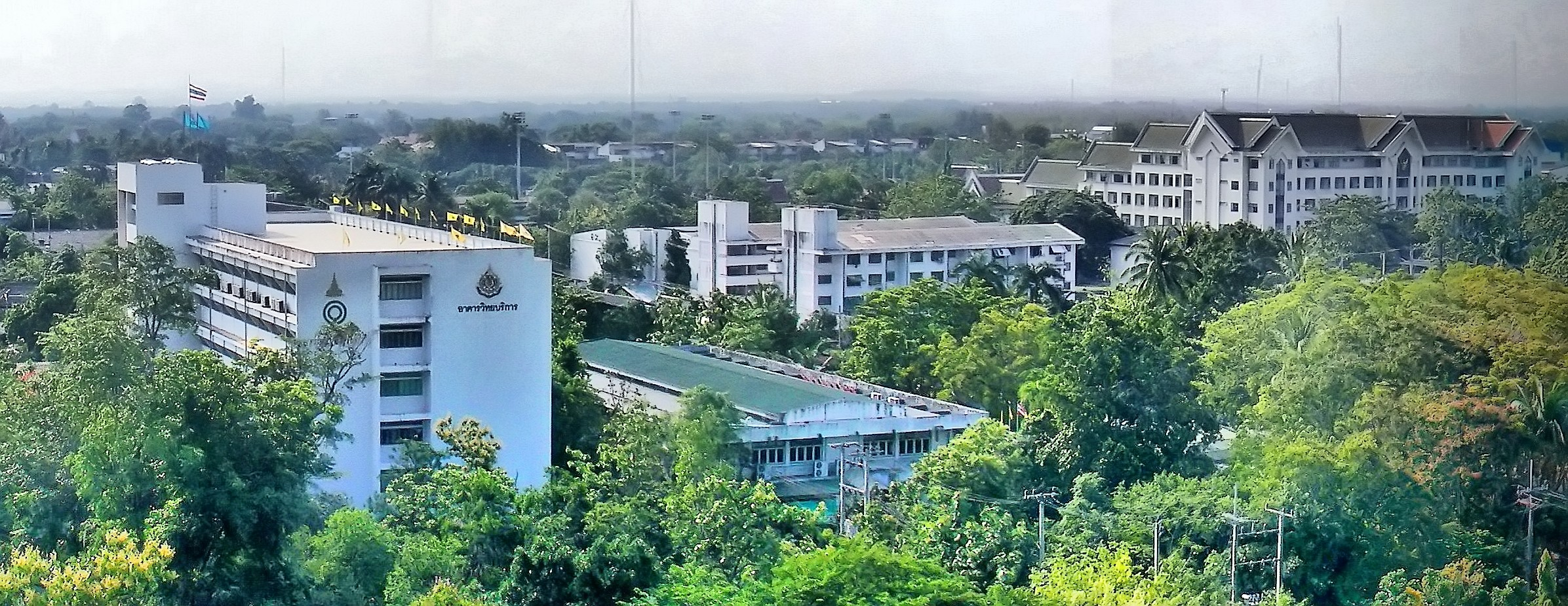 Uttaradit Rajabhat University Location: Uttaradit Rajabhat University Mueang Uttaradit, Uttaradit Province, Thailand.